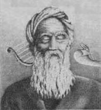 This postage stamp belongs to the Shah era, i.e. at least 35 years ago (the year 1343 would be 1964/1965 according the Persian calendar).